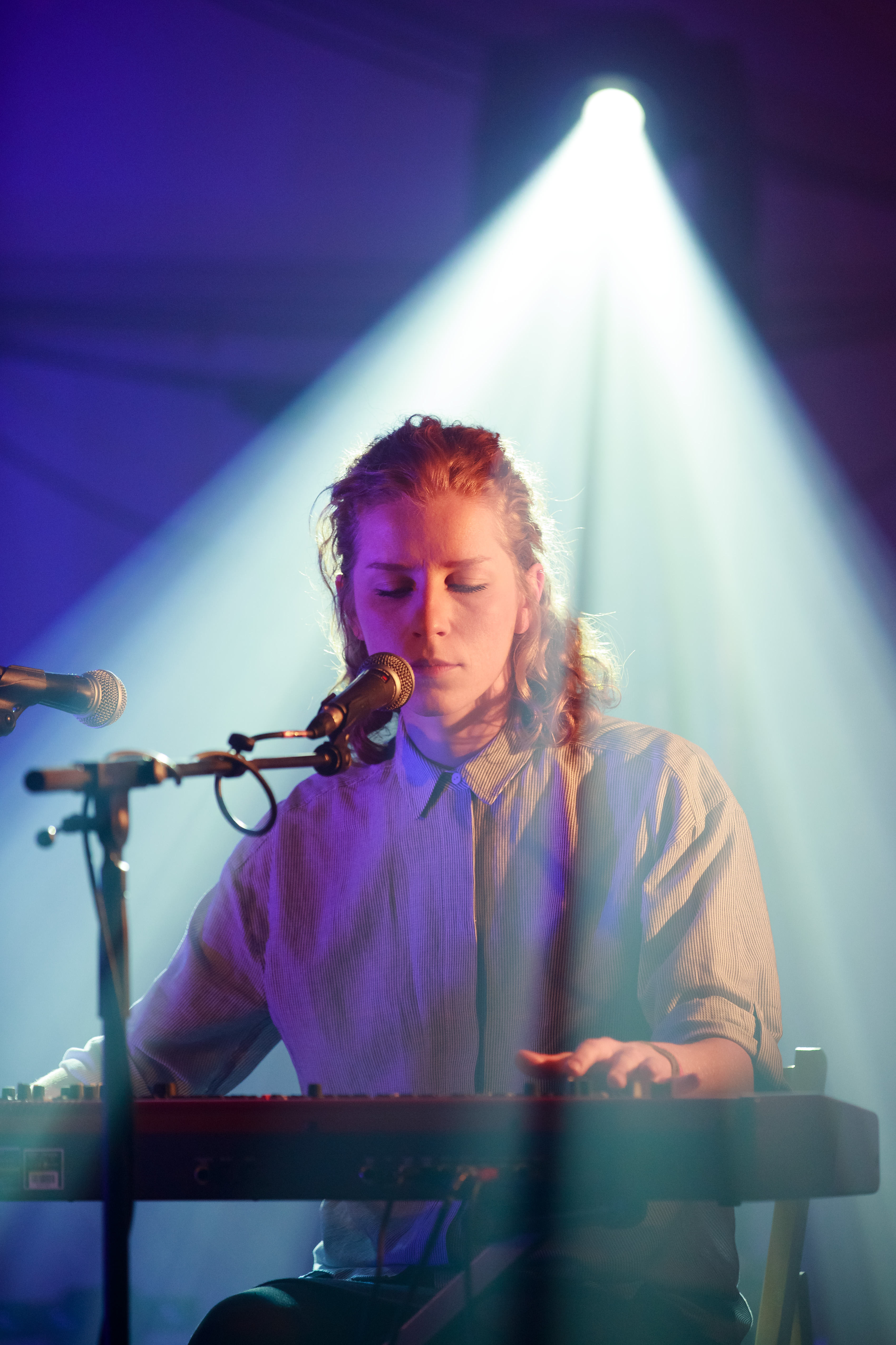 Alina Orlova, concert at Waves Vienna 2015 (Vienna, Austria).